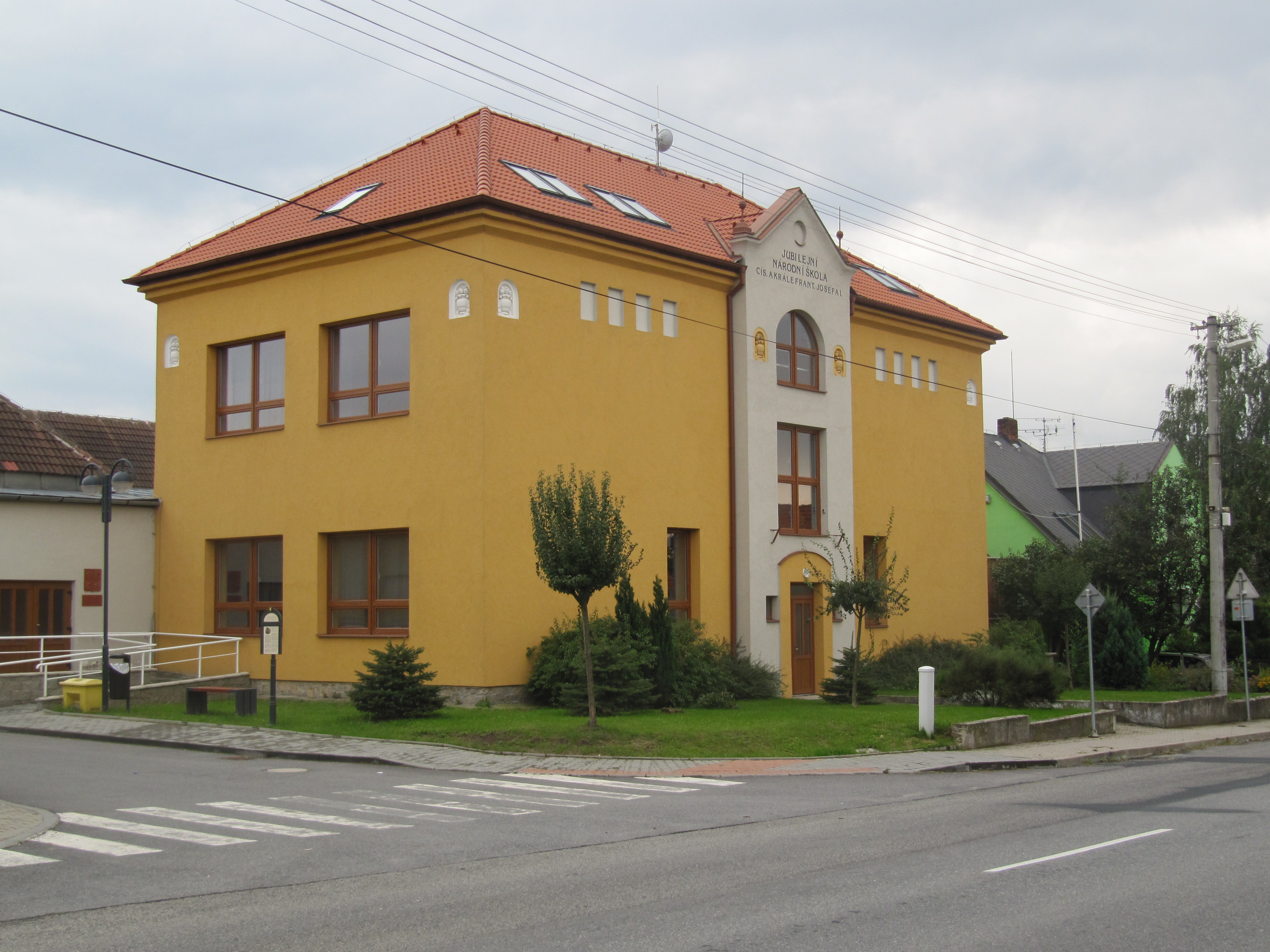 Rapotice in Třebíč District, Czech Republic.School.